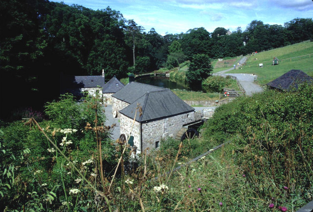 Benholm Mill. Restored Meal Mill